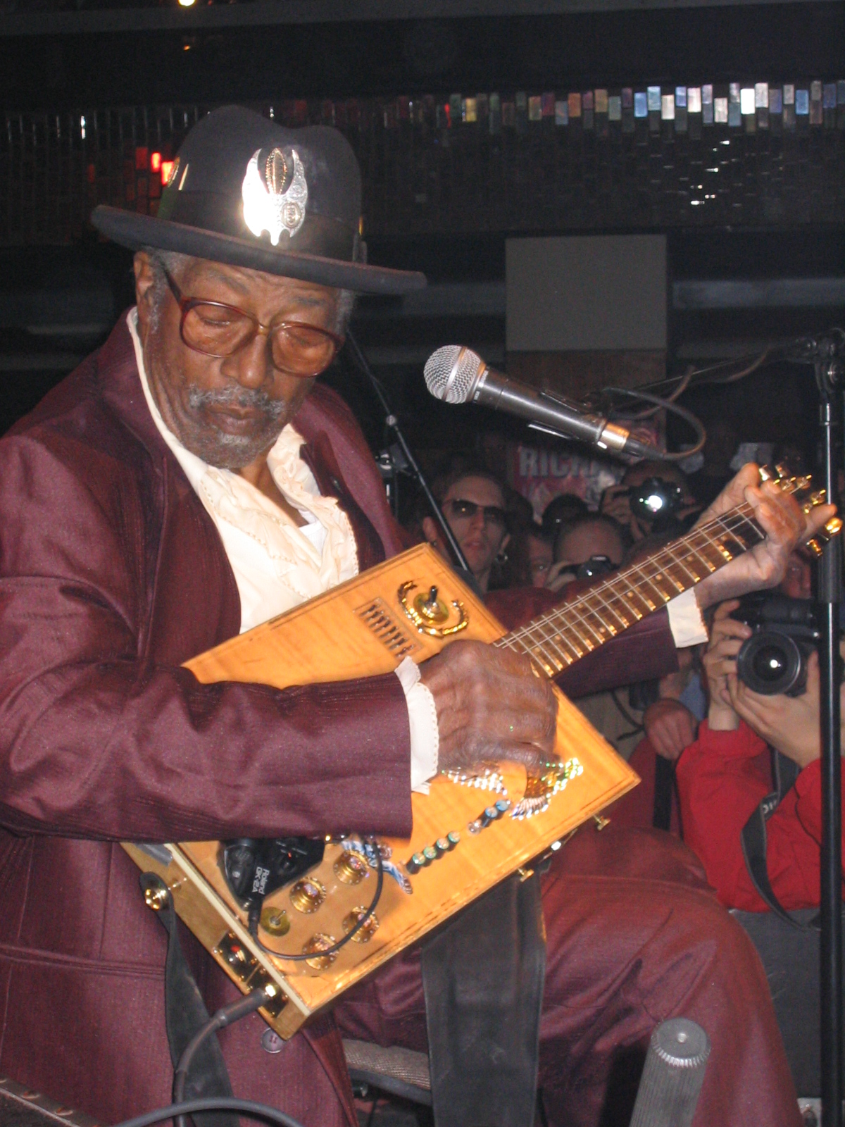 Bo Diddley in Prague (Lucerna Bar)